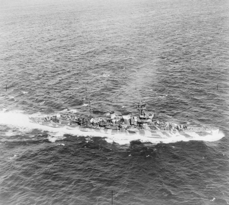 HMS Cairo Underway.